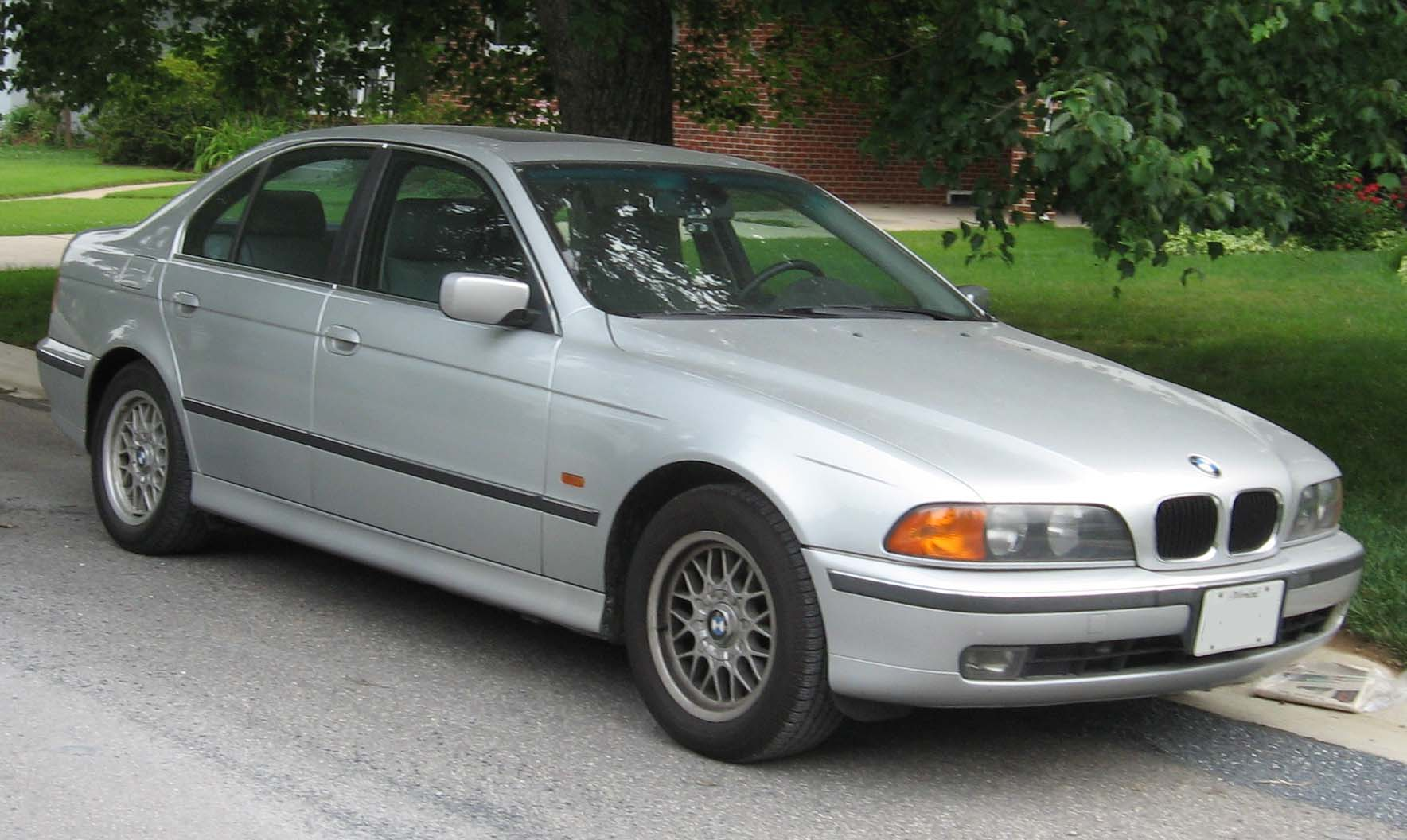 1996-2000 BMW 5-Series photographed in USA.